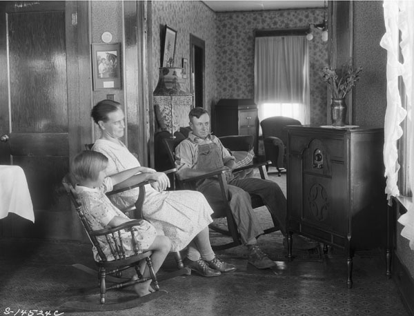 Farm family listening to their radio By George W. Ackerman, probably Ingham County, Michigan, August 15, 1930 National Archives and Records Administration, Records of the Extension Service (33-SC-14524c) [VENDOR # 172]